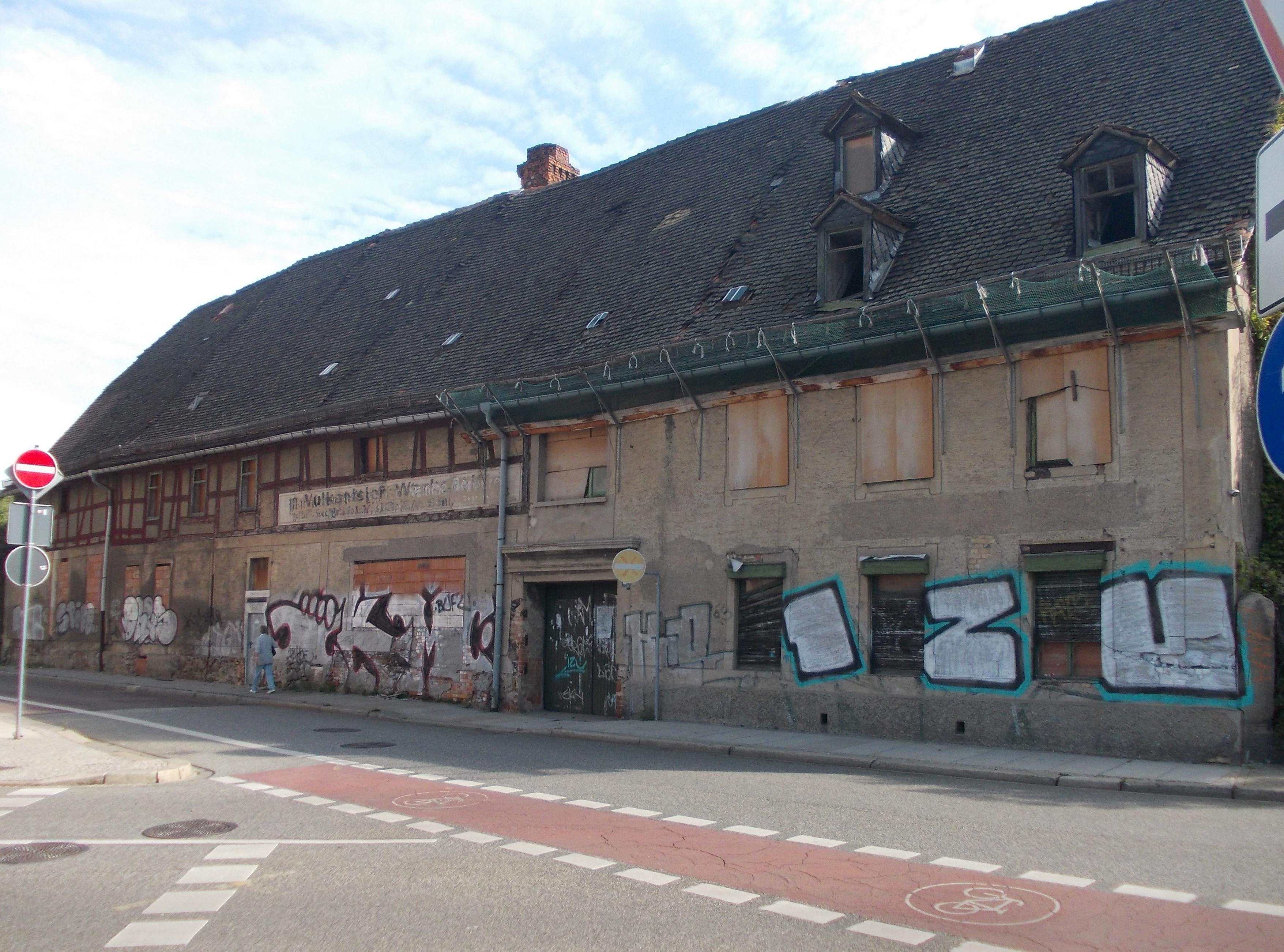 Former The Pelican brewery in the Schwemme quarter of Halle (Saale), Saxony-Anhalt